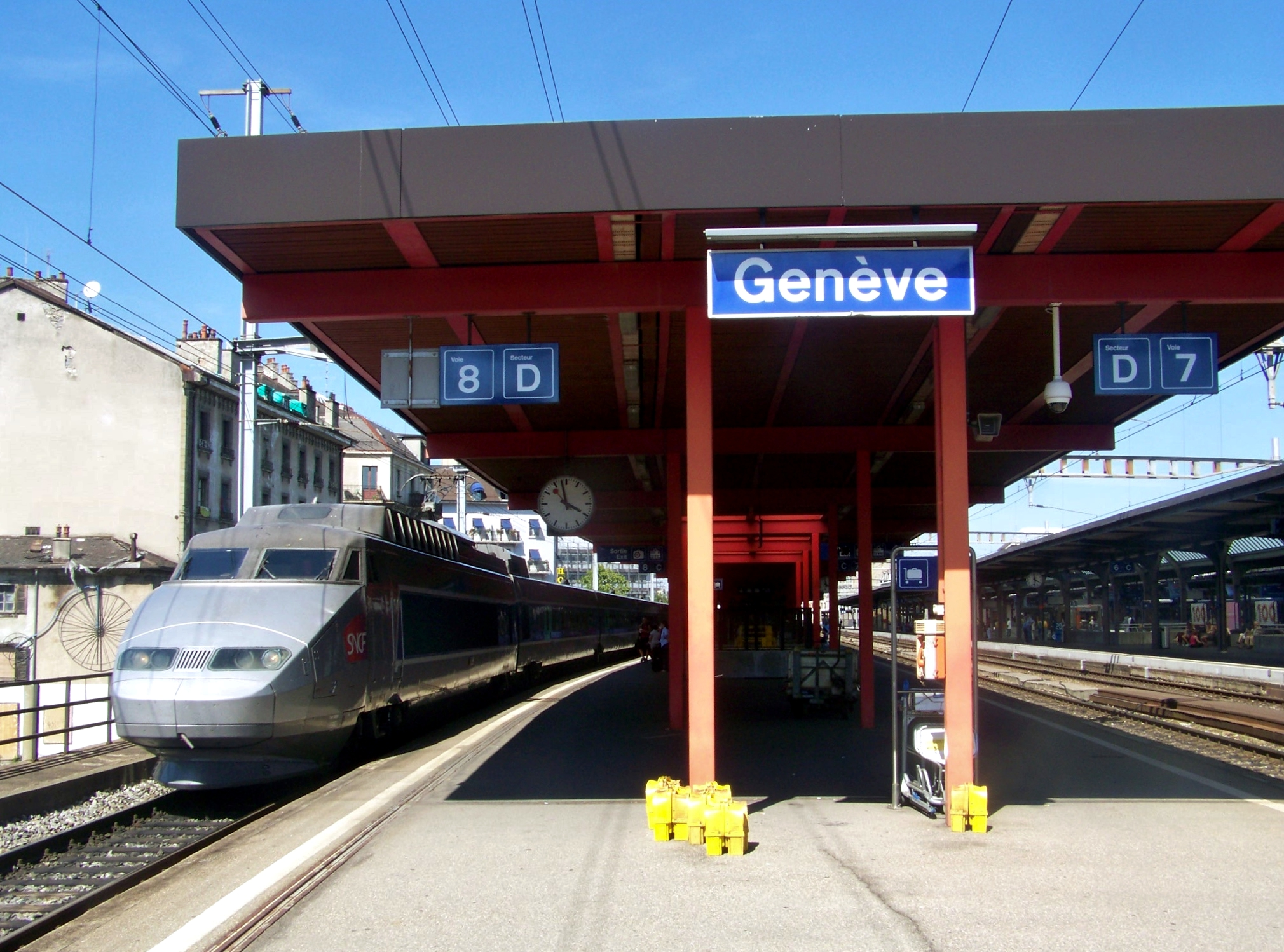 Sight of a French TGV boud for Paris at Genève-Cornavin station (Switzerland), on the special platform reserved to French trains because of customs and different electrification.